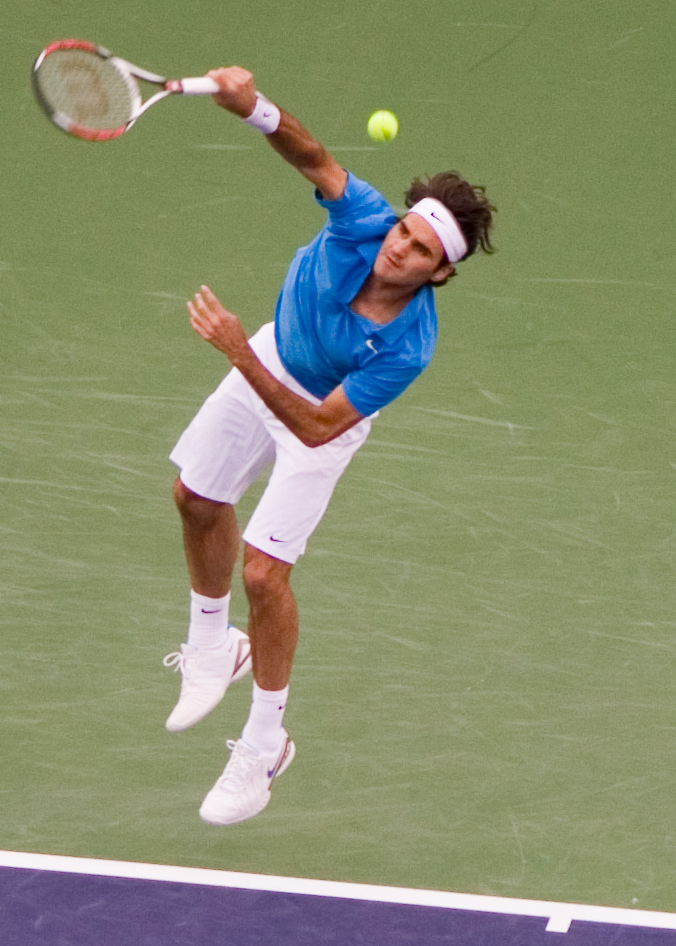 Roger Federer at Indian Wells, 2008